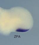 ZPA Zone polarisierender Aktivität in der Extrmeitätenknospe